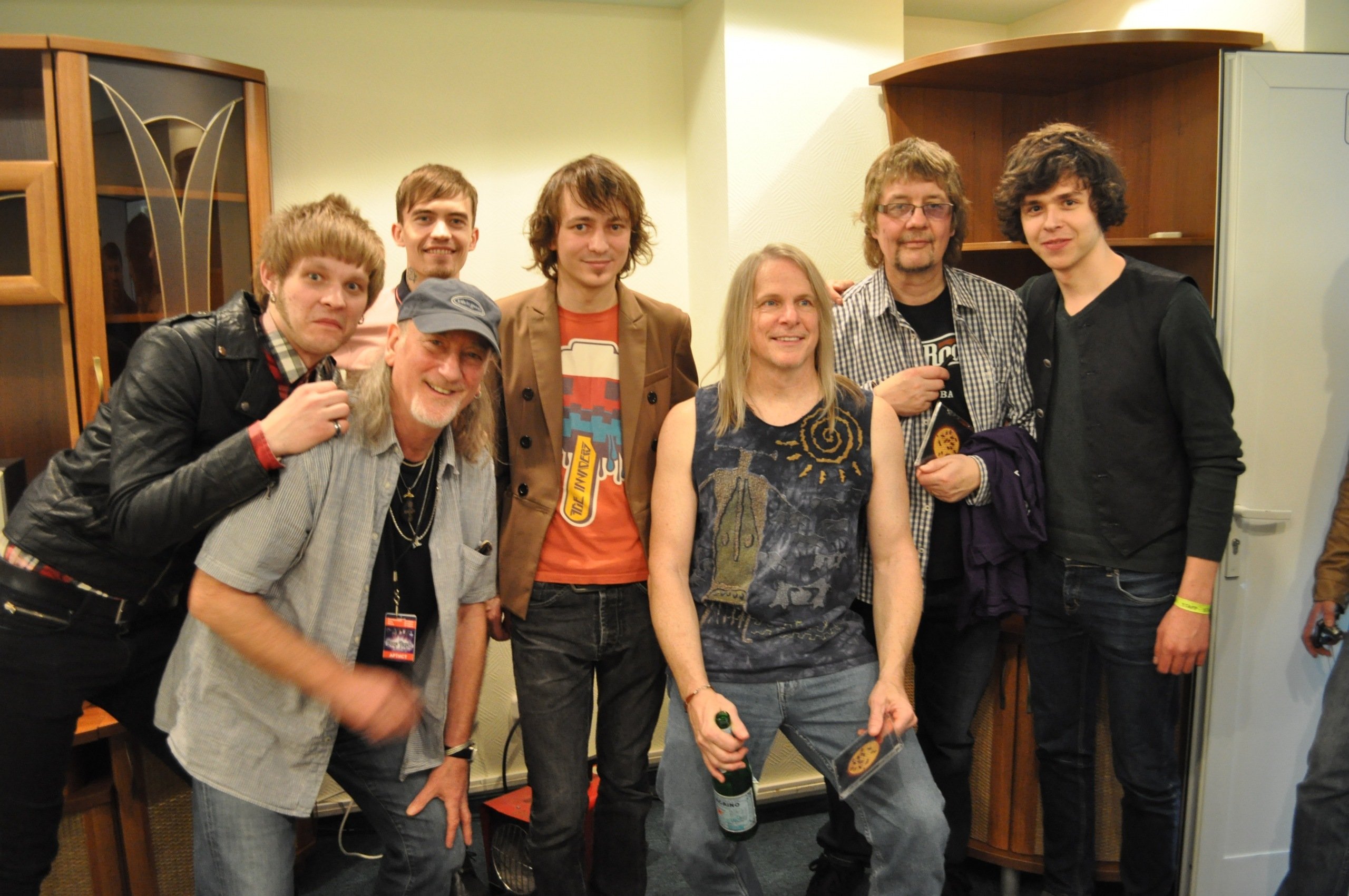 ebr